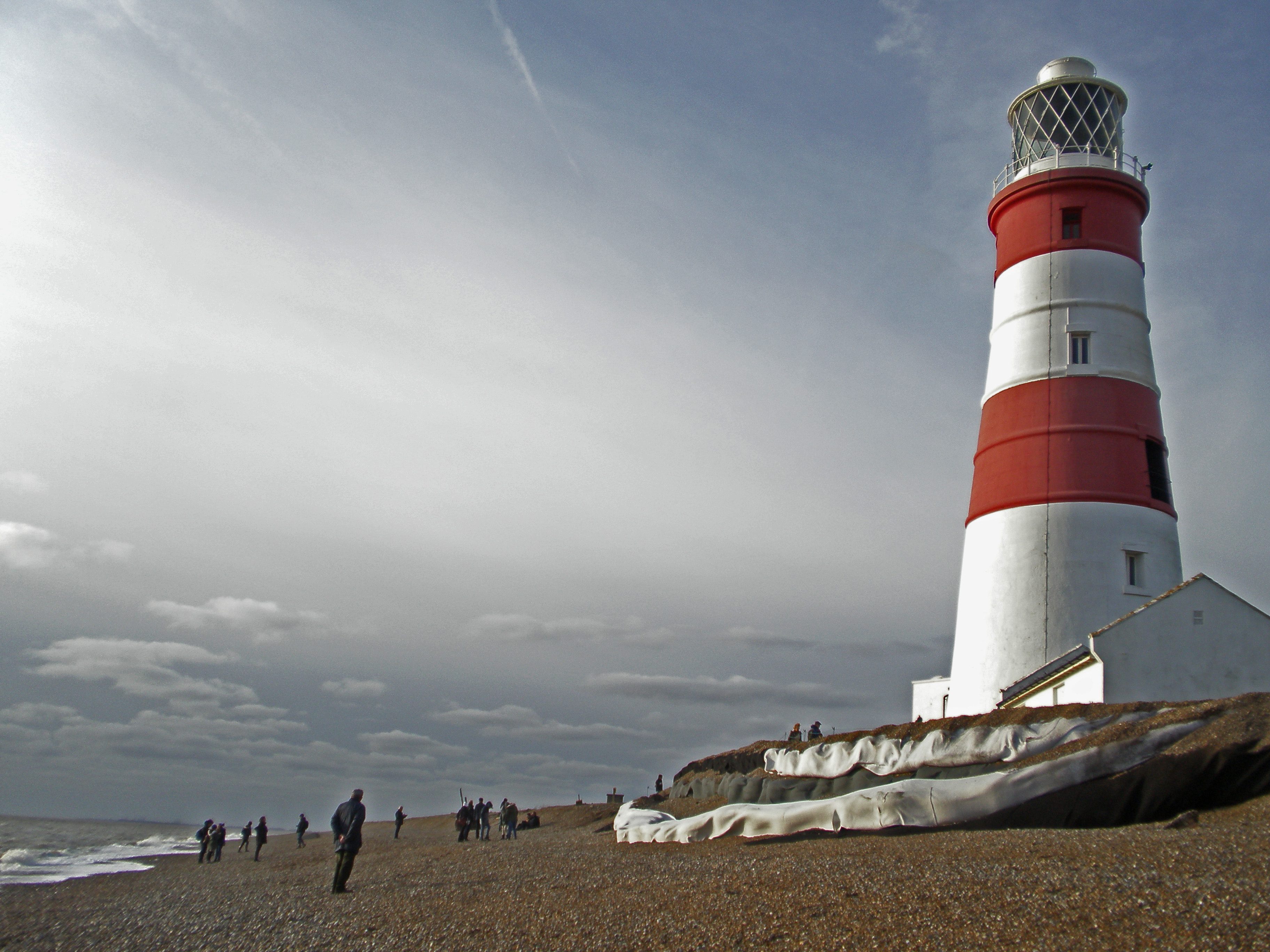 A visit to the very endangered Orfordness lighthouse. To read about its history and what is happening to it now see the website of the lovely people who are trying to save it.